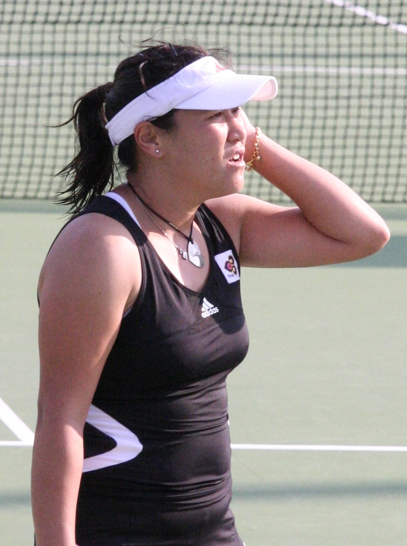 Tamarine Tanasugarn at their first-round match of the 2007 Australian Open.